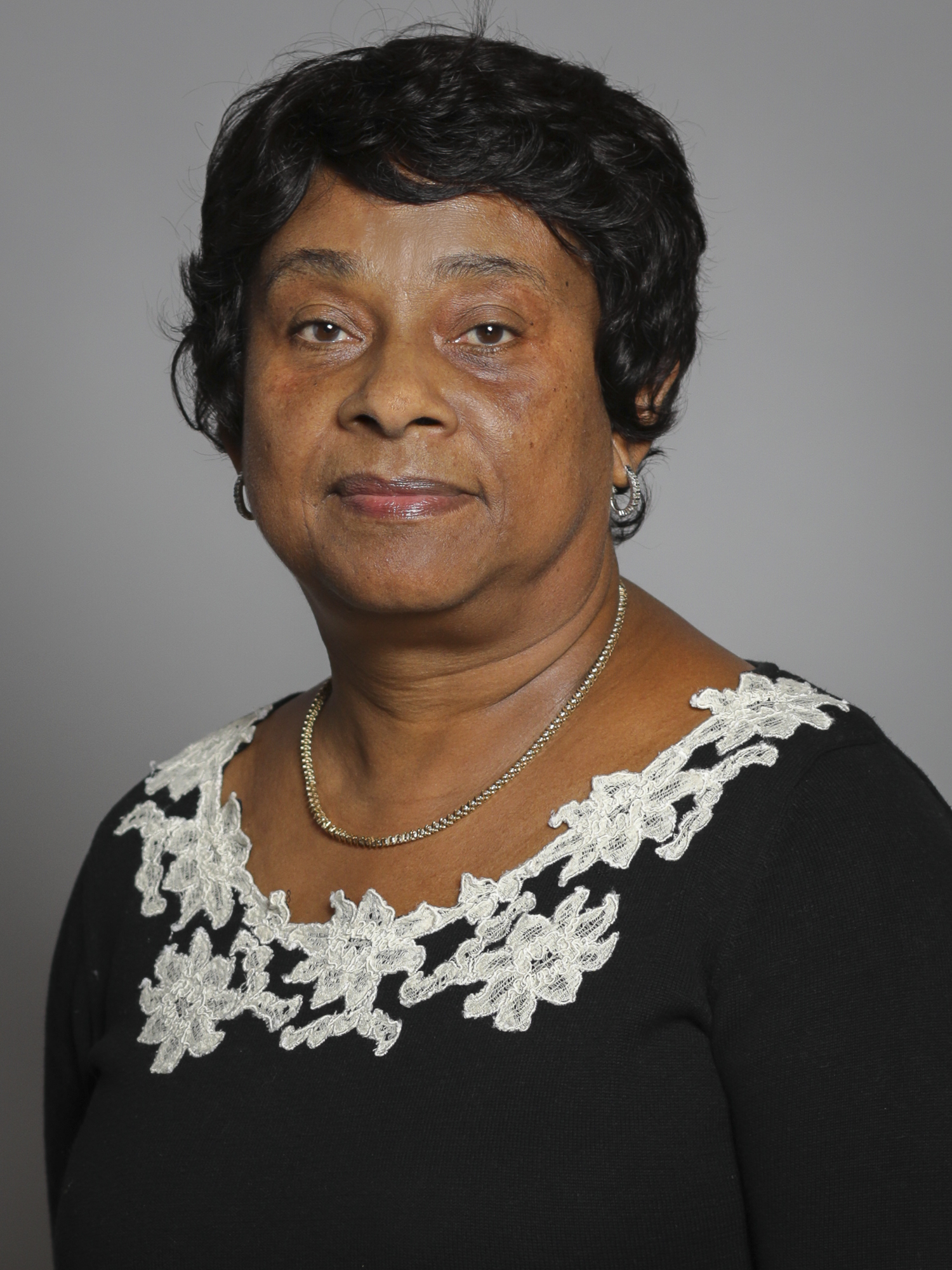 Official portrait of Baroness Lawrence of Clarendon 3×4 portrait of Baroness Lawrence of Clarendon